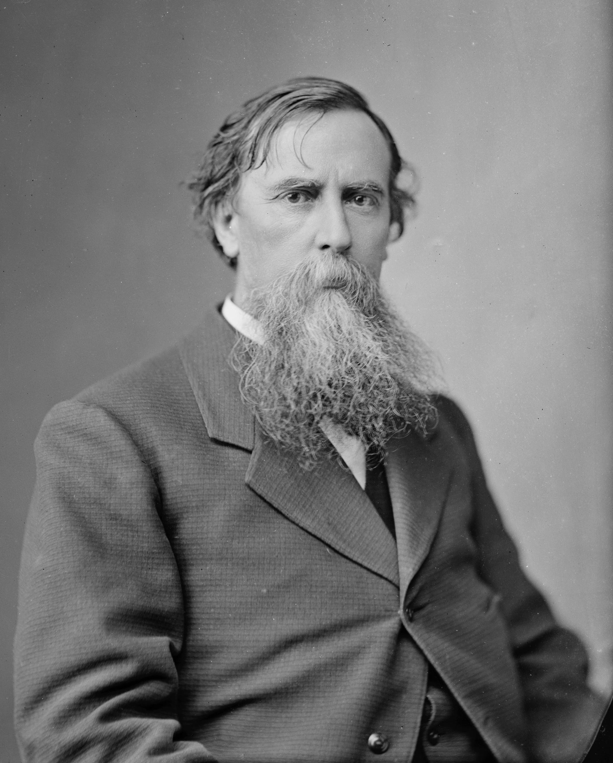 Donn Piatt, one of the builders of the Piatt Castles. Library of Congress description: "Piatt, Col. Donn (Journalist)".